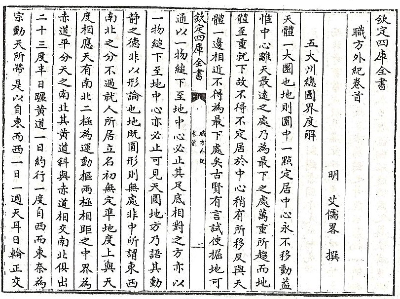 Zhi Fang Wai Ji